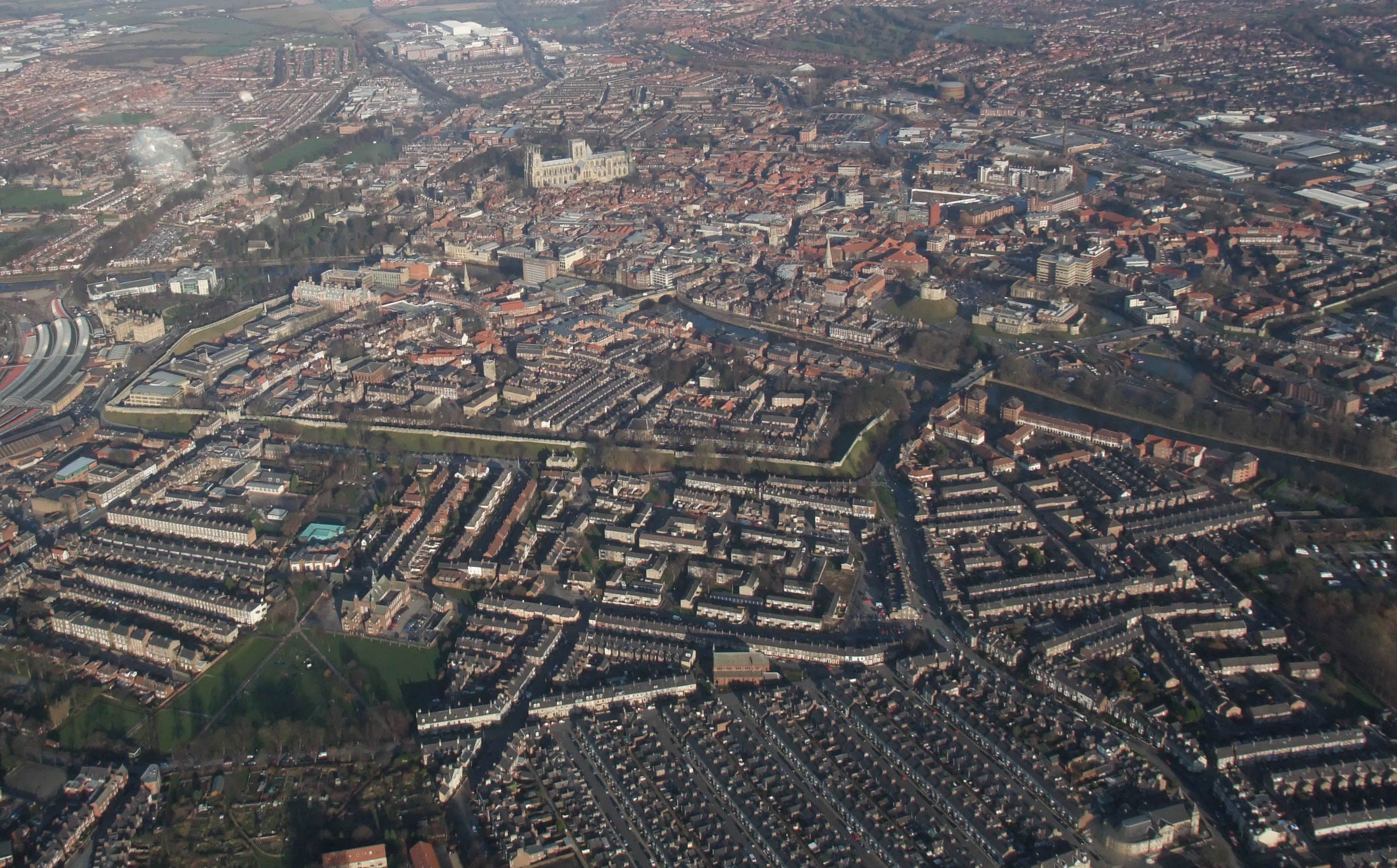 Aerial View of the Center of York